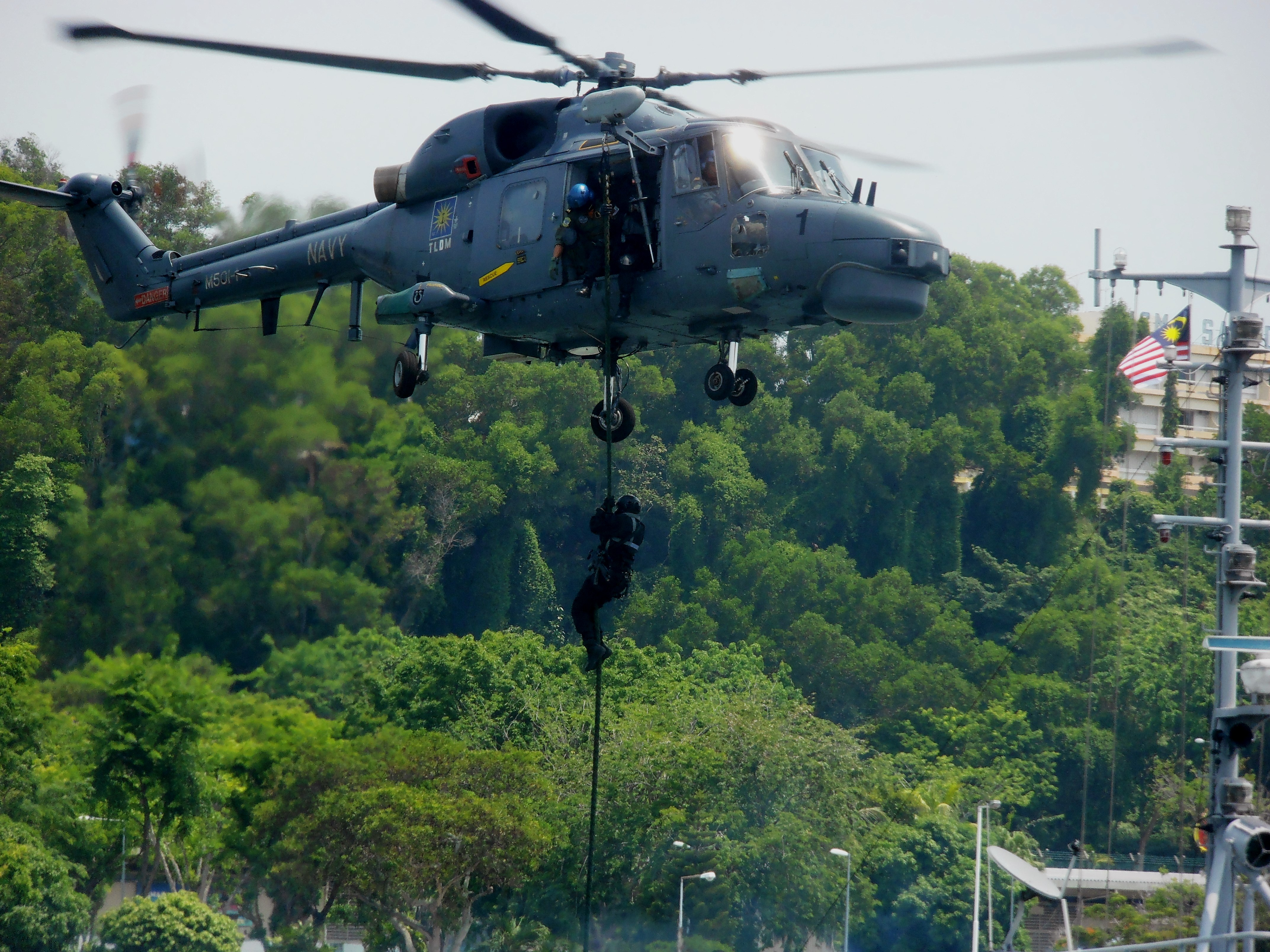 LUMUT (May 01, 2016) – One member of the PASKAL Vessel, Board, Search, and Seizure (VBSS) team using the rappeling from Super Lynx helicopter while boarding Tunda Satu naval trawler to demonstrate the maritime hostage rescue during 82nd Anniversaries of Royal Malaysian Navy, Lumut, Perak, Malaysia.